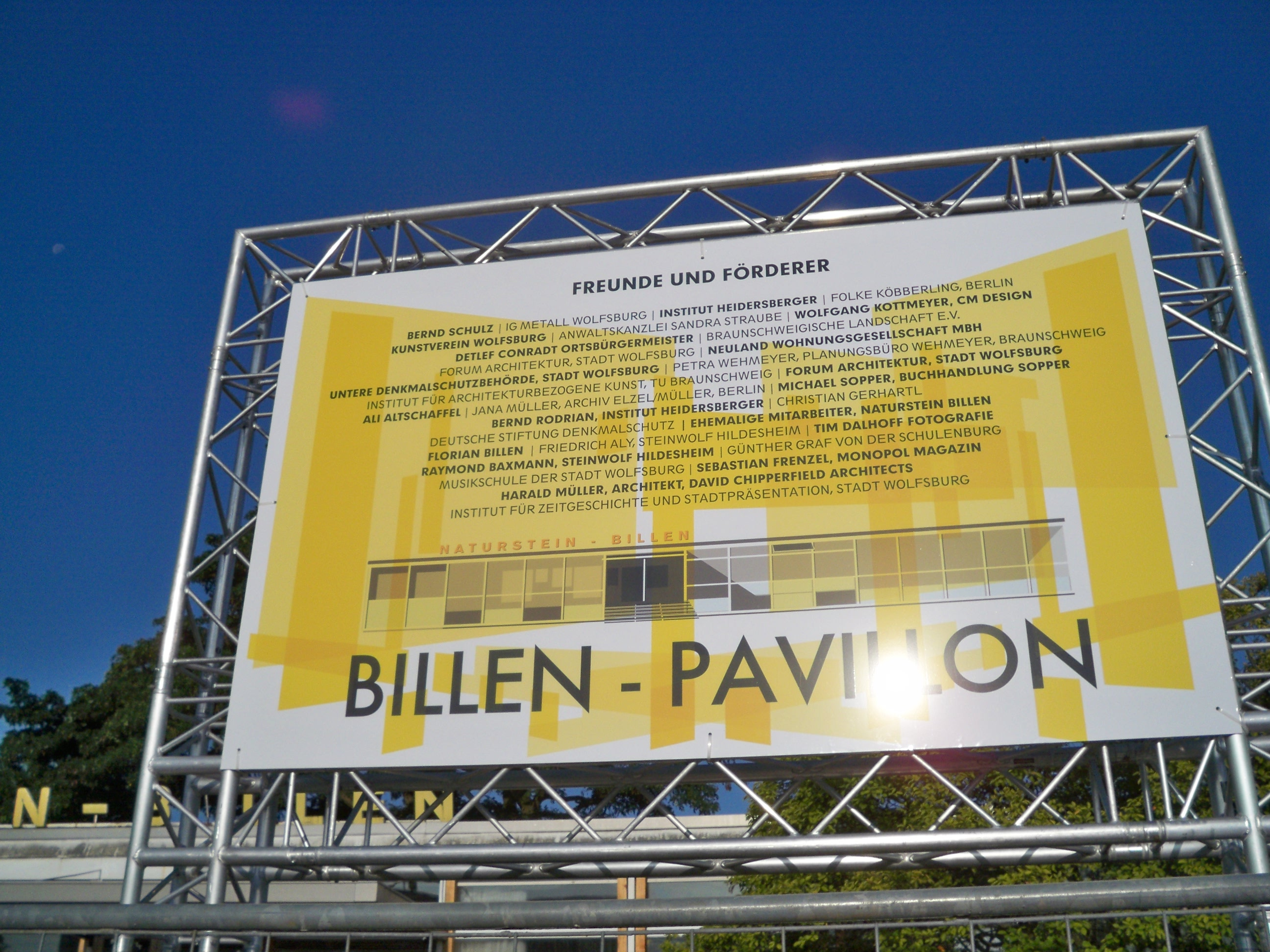 Wolfsburg, Lower Saxony, Billen-Pavillon (1959), sign with names of activists and supporting institutions